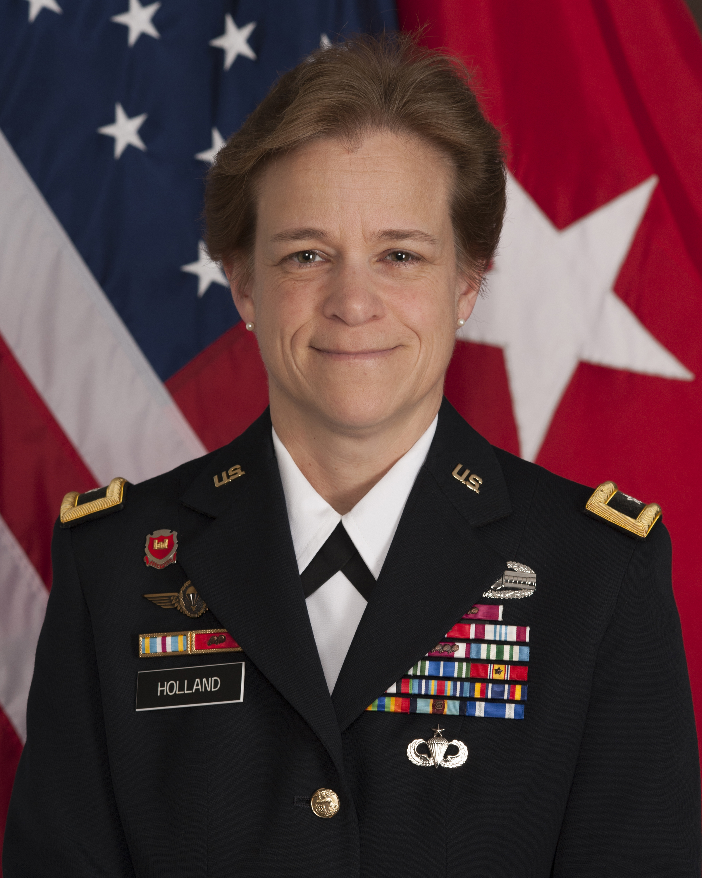 Brig. Gen. Diana M. Holland